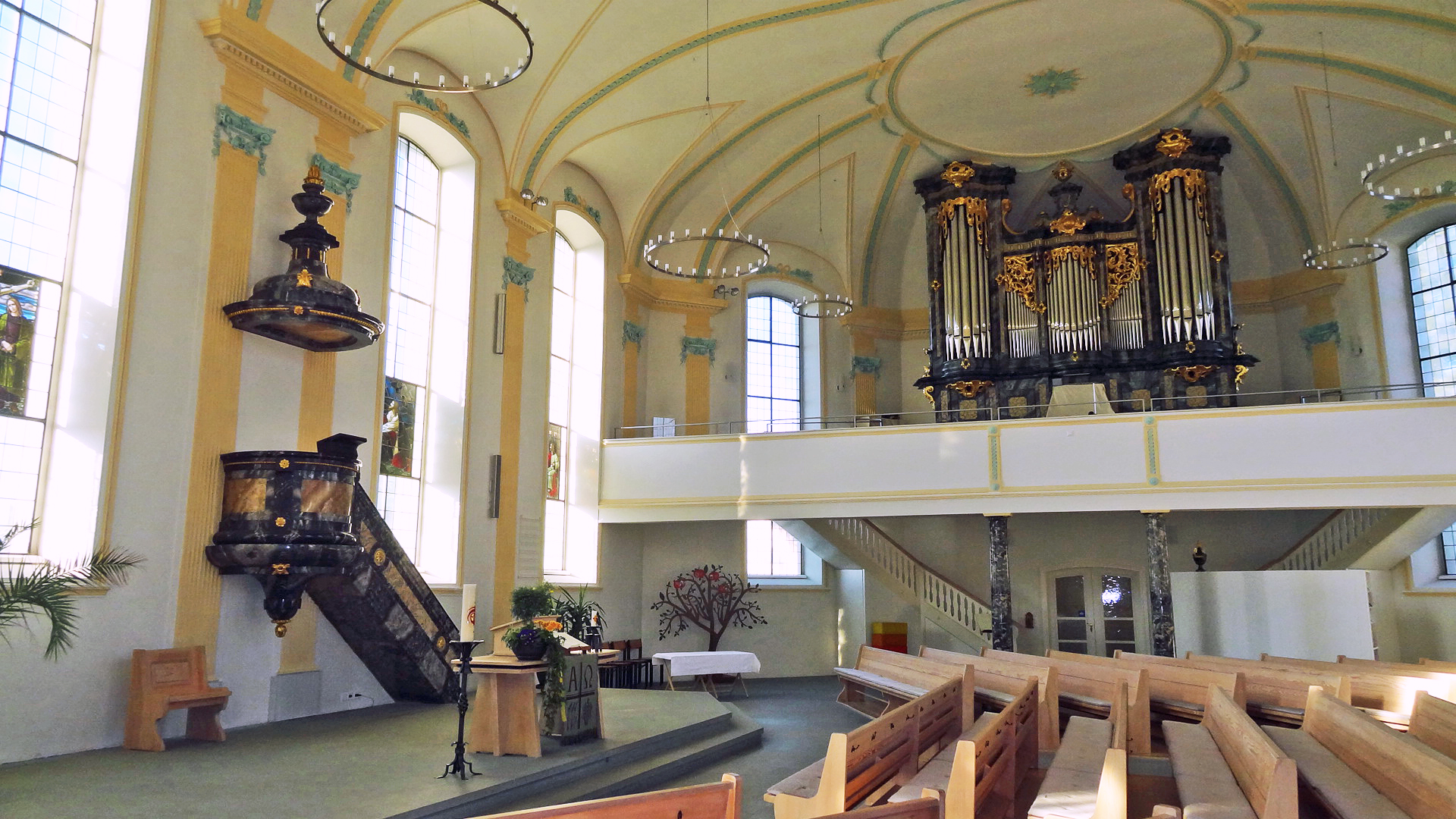 Interior of reformed church in Altnau. Pulpit and pipe organ balcony